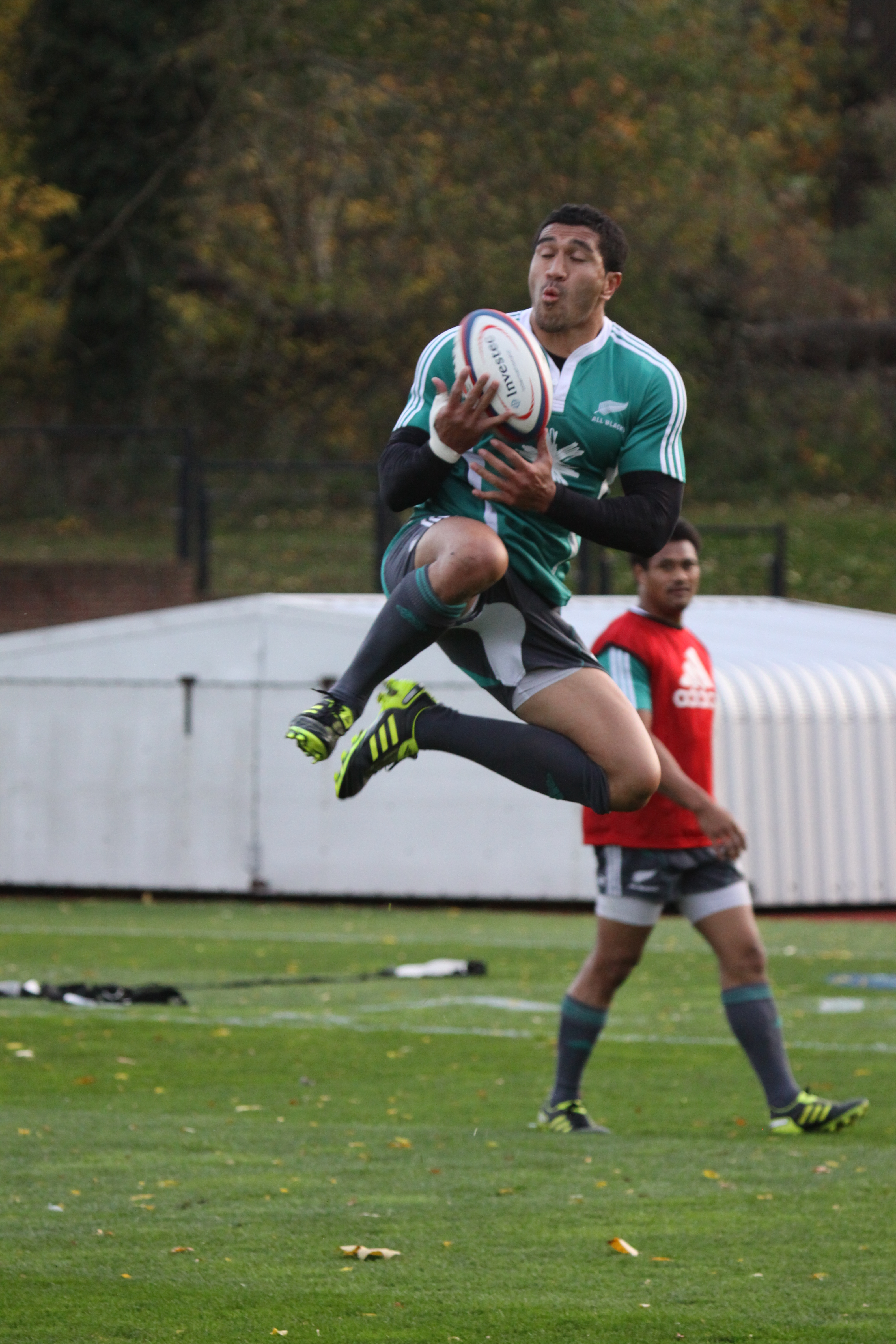 Muliaina in 2010